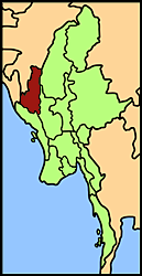 Position of Chin State